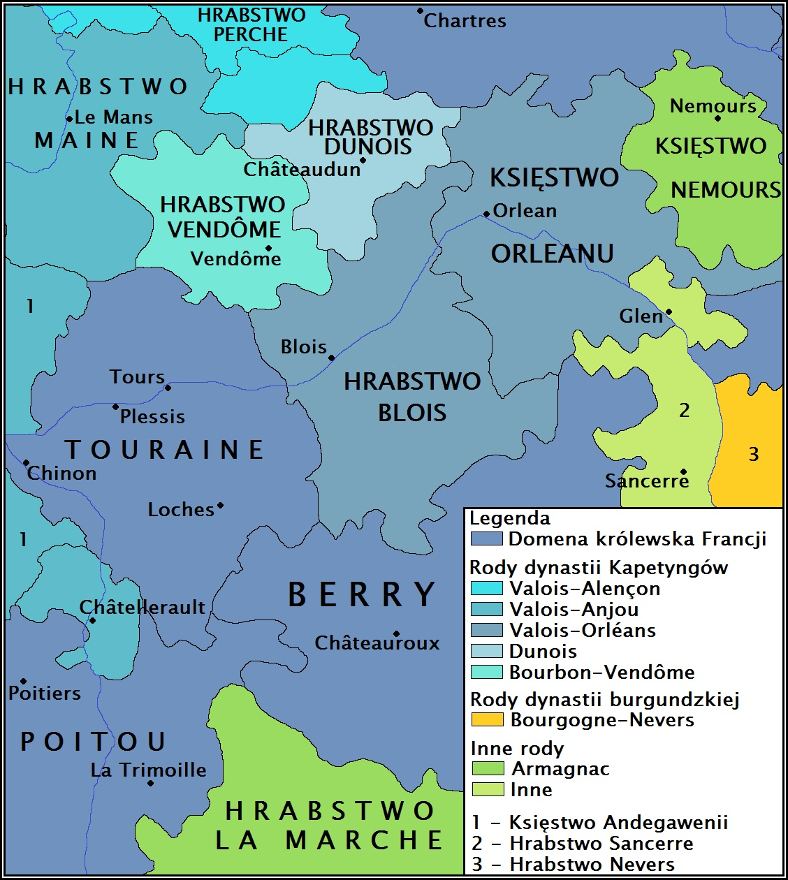 County of Blois